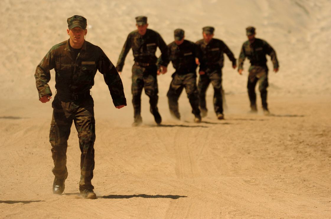 040423-N-6967M-776 By the final days of Hell Week running no longer resembles running, it becomes more like an old man's waddle. Stiff muscles and raw skin make basic movements extremely difficult. (All Hands, August 2004, pg. 17) Photo by Photographer's Mate 1st Class (AW) Shane T. McCoy. (RELEASED)